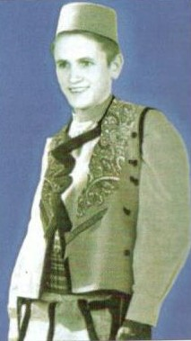 A boy from Gora region, in a folk costume